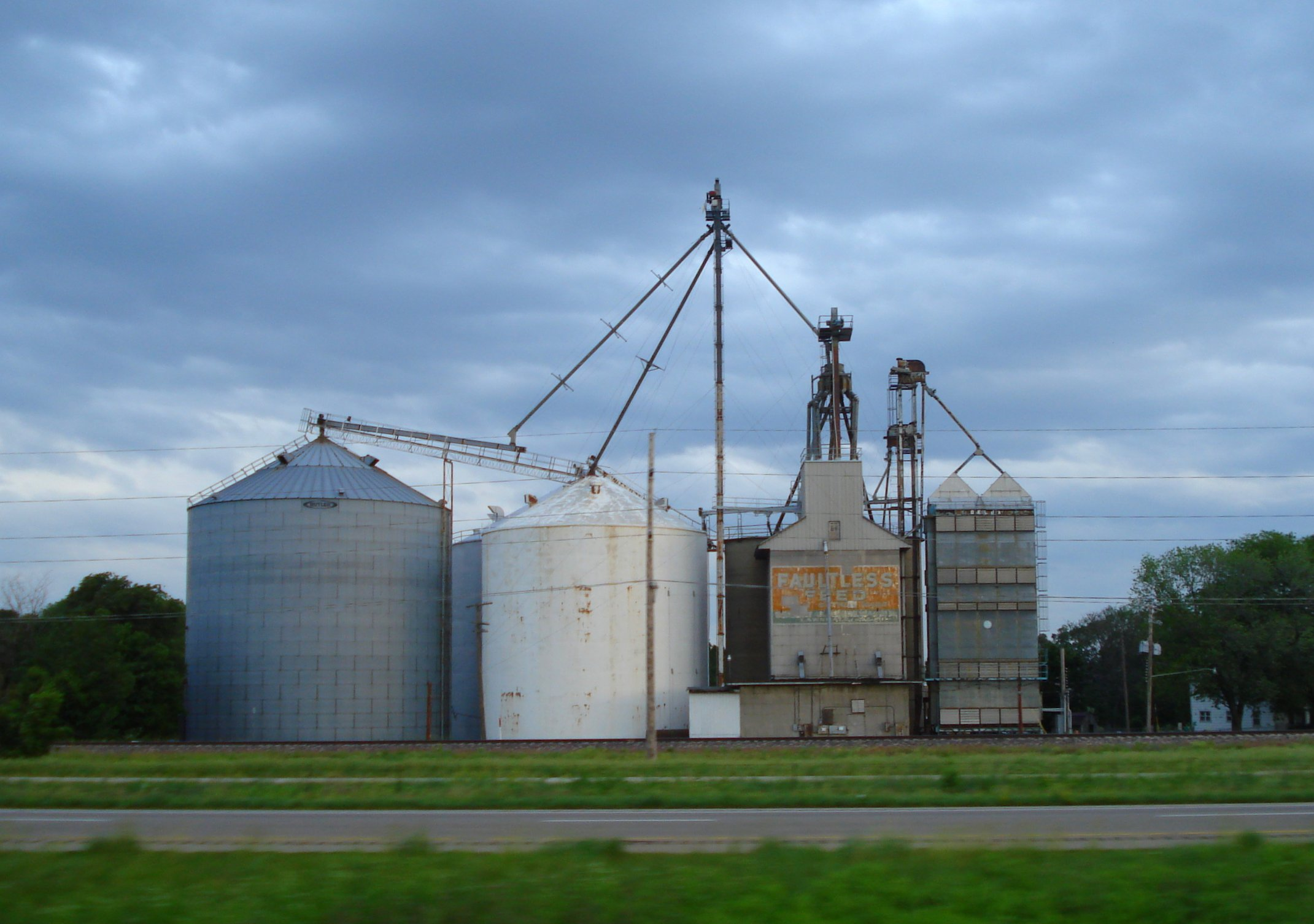 One of the coolest sights along I-55/Old Route 66. Lawndale Elevator, a grain elevator at Lawndale, Illinois, with "Faultless Feed: Lawndale" on the side. Foreground, from front to back: I-55 southbound; old U.S. Route 66; and railroad formerly known as the Chicago and Alton Railroad, now the Union Pacific SPCSL line.